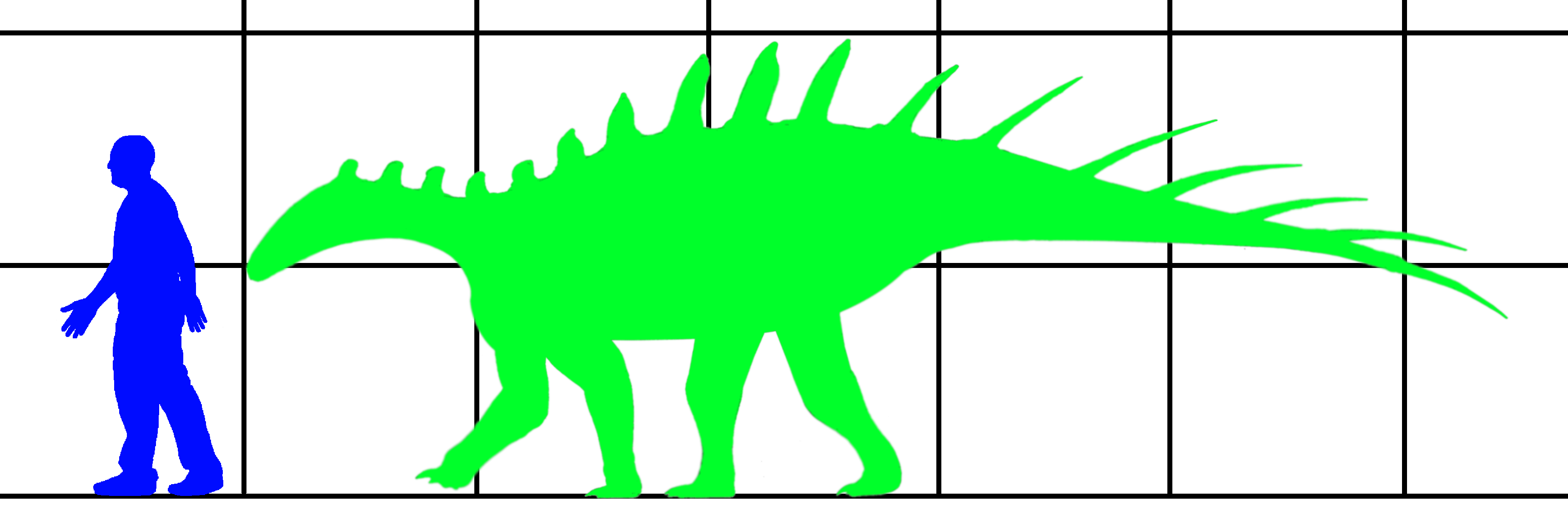 Size comparison of Paranthodon africanus and a human. Paranthodon based off of Dacentrurus by Jaime Headden, human by Andy Farke. Former image is on commons, latter is from phylopic CC-BY 3.0. Size from Holtz, 2007: Holtz, T.R. Jr. (2007). Dinosaurs: The Most Complete, Up-to-Date Encyclopedia for Dinosaur Lovers of All Ages. Random House Books for Young Readers. p. 402. ISBN 978-0-375-92419-4